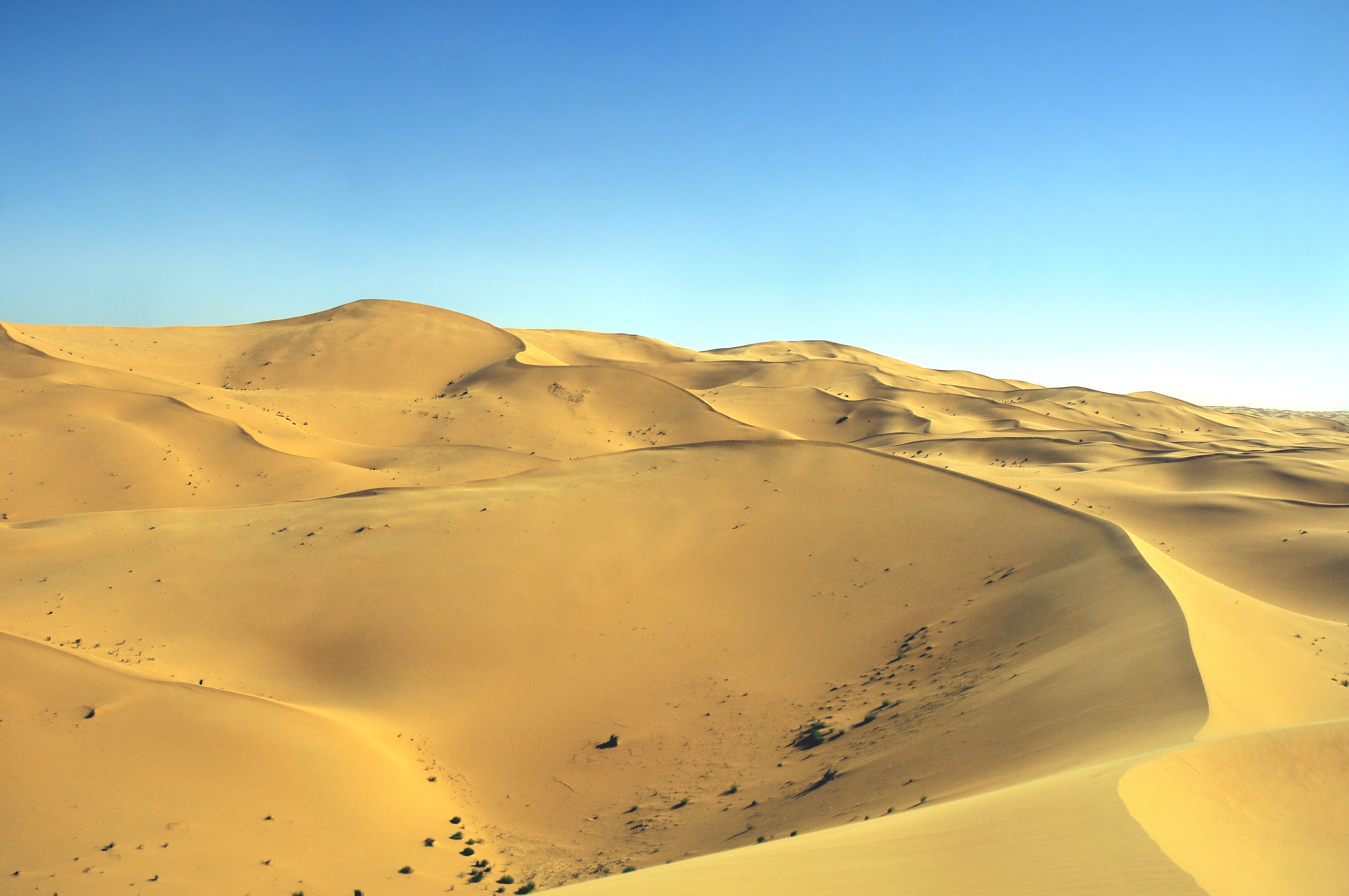 The Grand Erg Occidental at Taghit, Bechar, Algeria